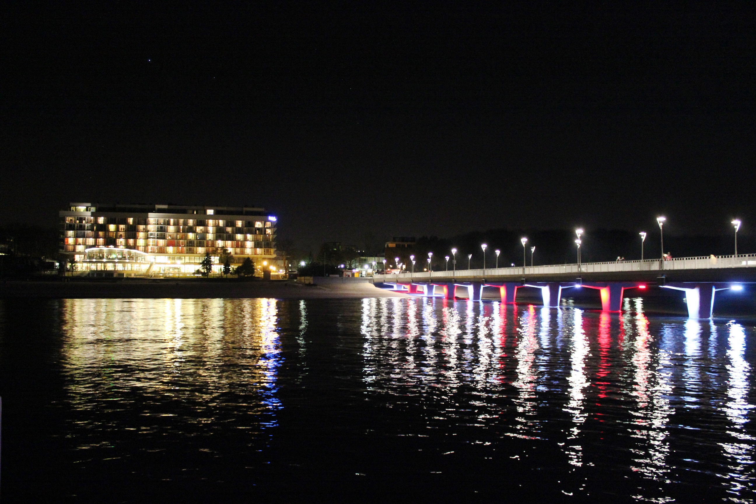 Bałtyk Sanatorium in Kołobrzeg